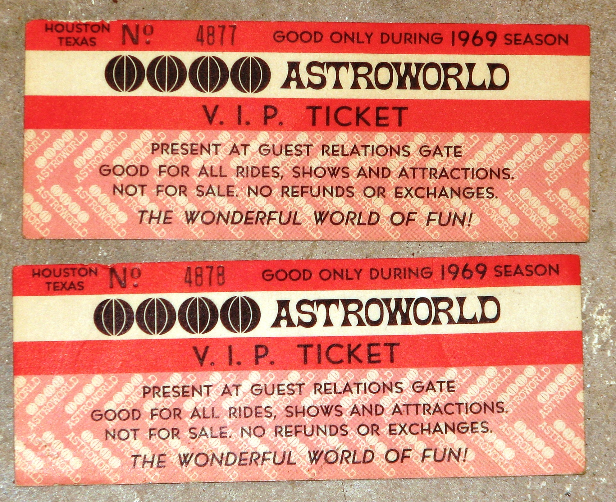 A pair of 1969 Astroworld tickets from Houston, Texas.